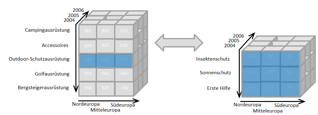 OLAP-Operations: Drilling up and down